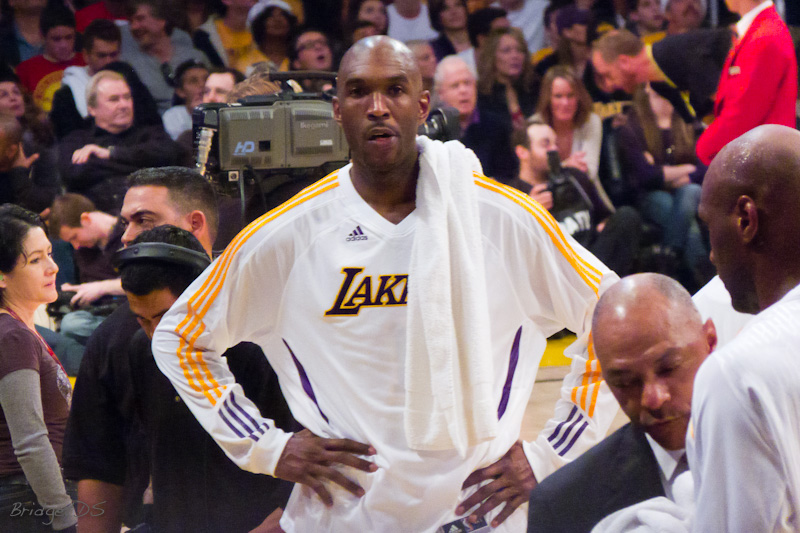 Joe Smith of the Lakers.